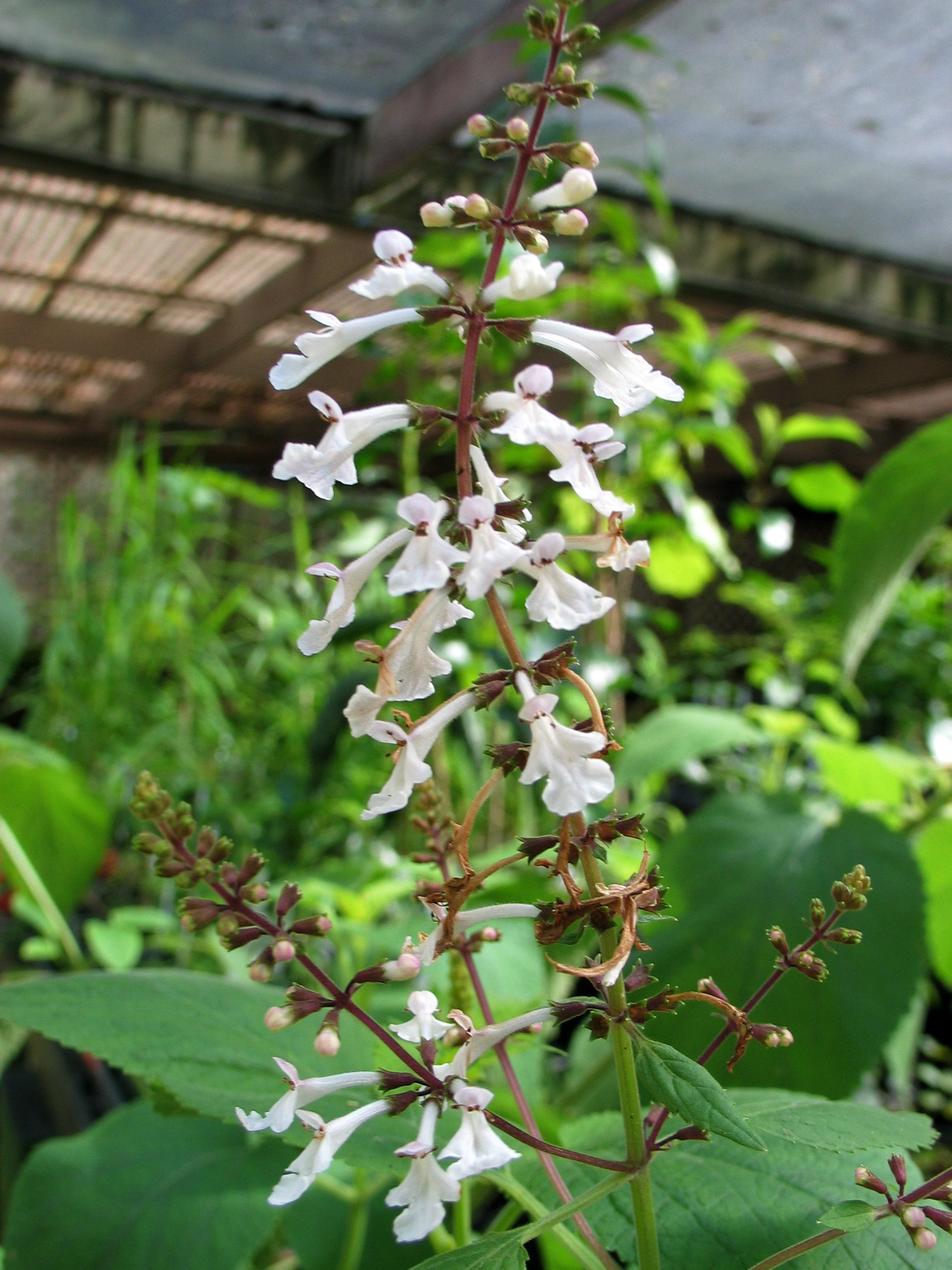 "Hawaiian mint" (no common or known Hawaiian name) Lamiaceae Endemic to the Hawaiian Islands Endangered Oʻahu (Cultivated)